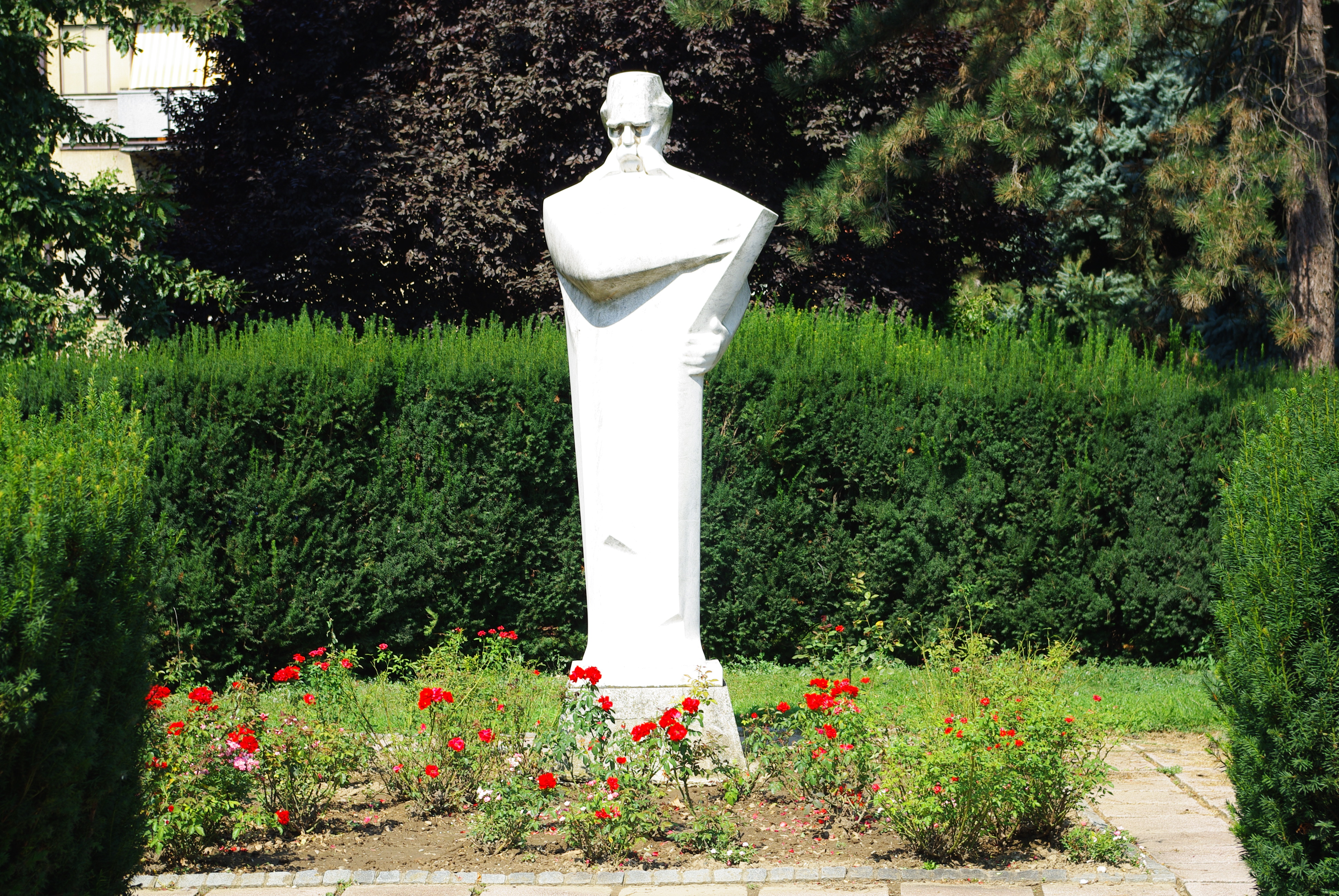 Statue of Vuk Stefanovic Karadjic